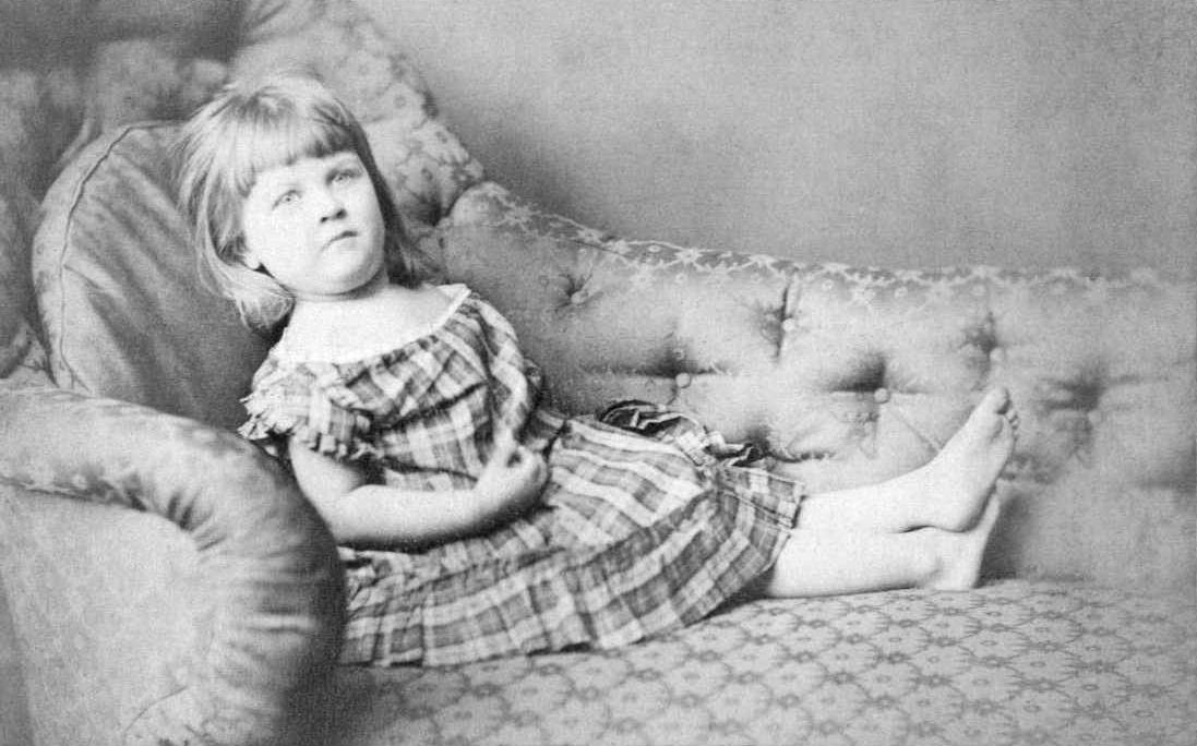 Portrait of Ethel C. Hatch by Lewis Carroll in 1894.